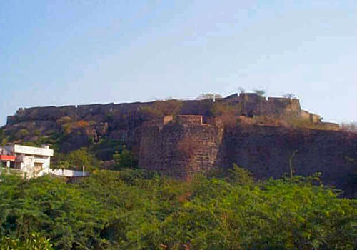 Fort View